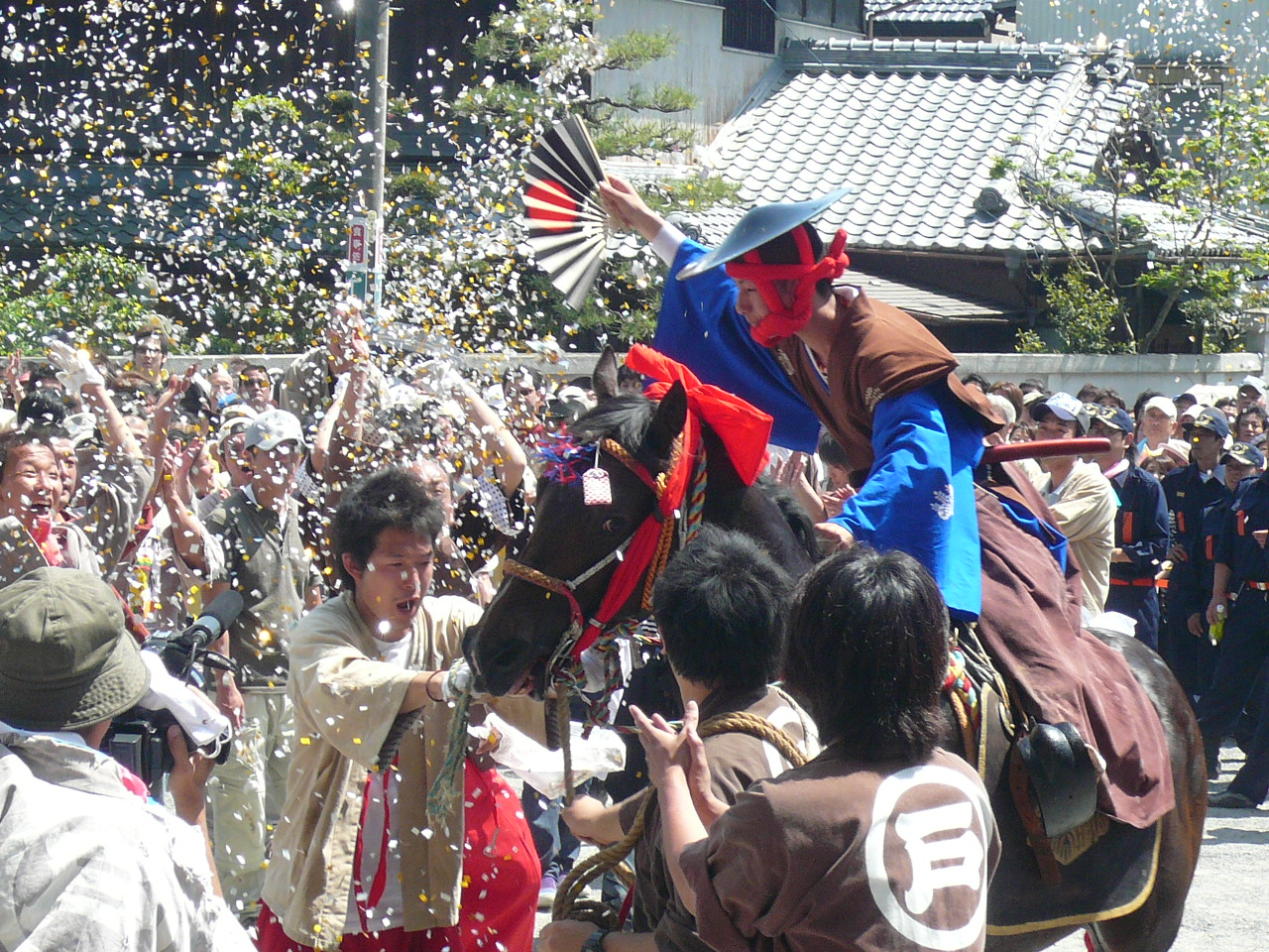 A picture of the Tado Festival in Kuwana, Mie Prefecture.